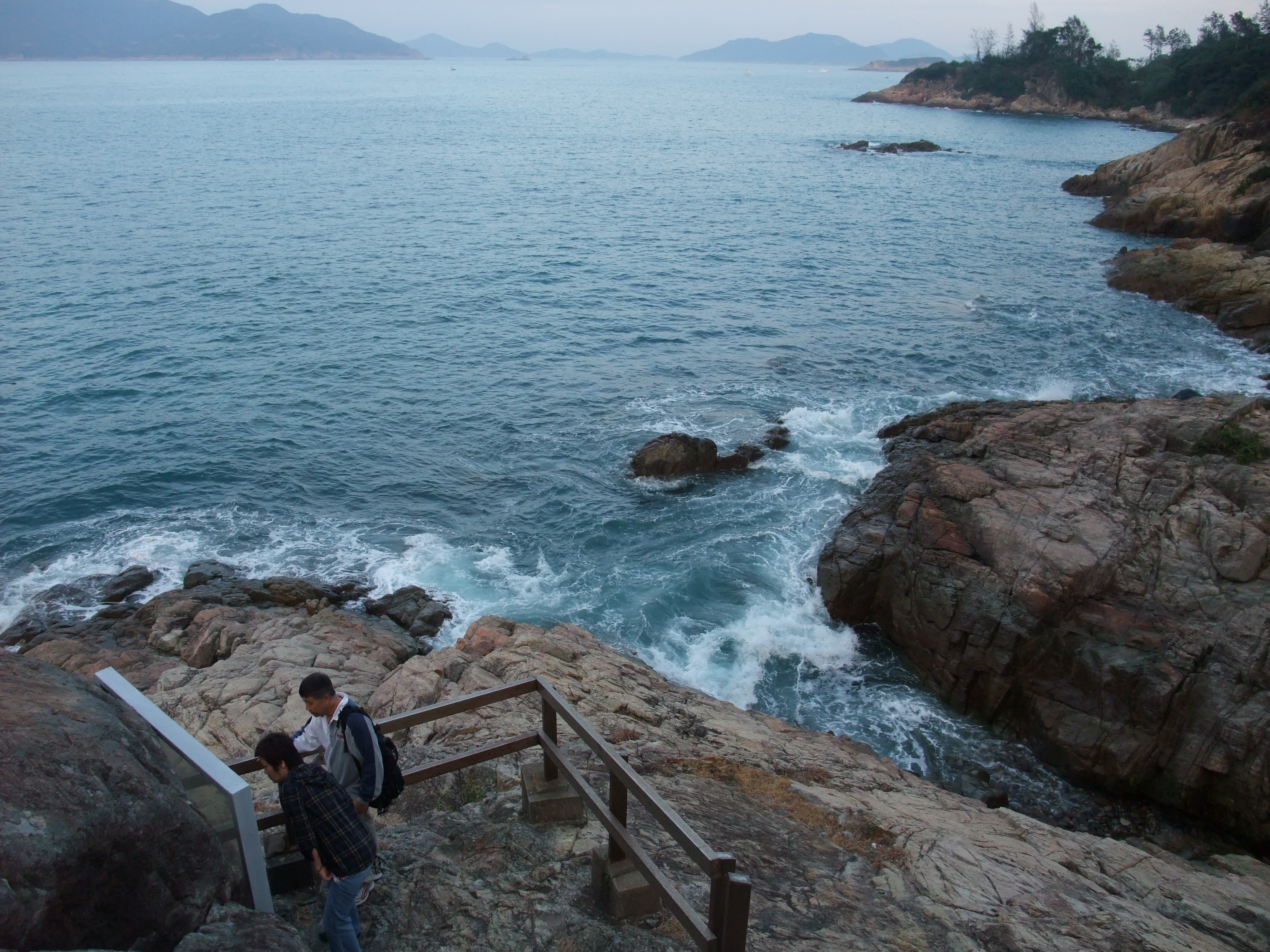 Photo of Lung Ha Wan Rock Carving